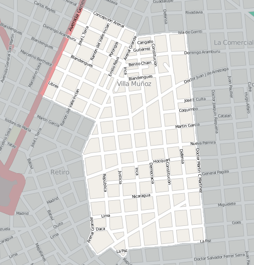 Street map of Villa Muñoz, Montevideo, exported from OpenStreetMap. I added shading to delimit the barrio. This map may be incomplete, and may contain errors. Don't rely solely on it for navigation.